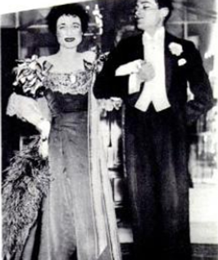 Wallis Simpson at a fancy dress party in 1930.